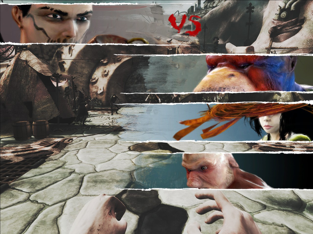 Zeno Clash screenshot. Released in 2009, the game was developed by ACE Team and is powered by Valve Software's Source engine.